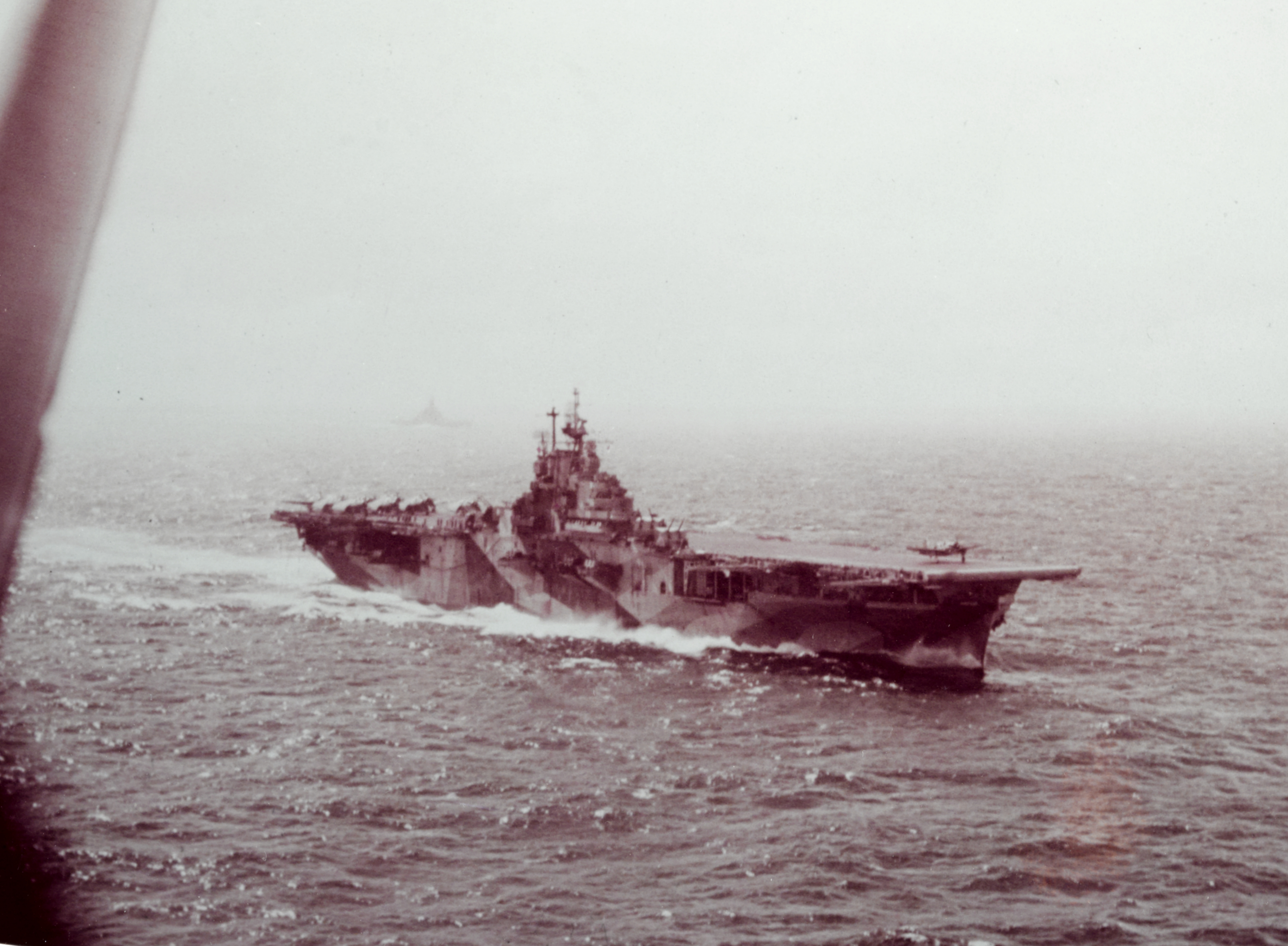 The U.S. Navy aircraft carrier USS Intrepid (CV-11) engaged in flight operations as viewed from the backseat of an Curtiss SB2C Helldiver during the Battle of Leyte Gulf. Another SB2C from Bombing Squadron 18 (VB-18) is launching from the carrier. Note the battleship in the distance.